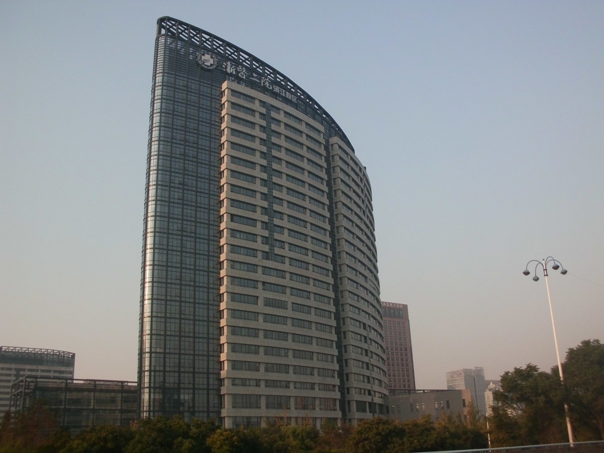 Bin Jiang Hospital